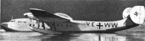 The Potez-CAMS 161 about 1942. This picture is misidentified by the caption as the unbuilt Potez-CAMS 140.